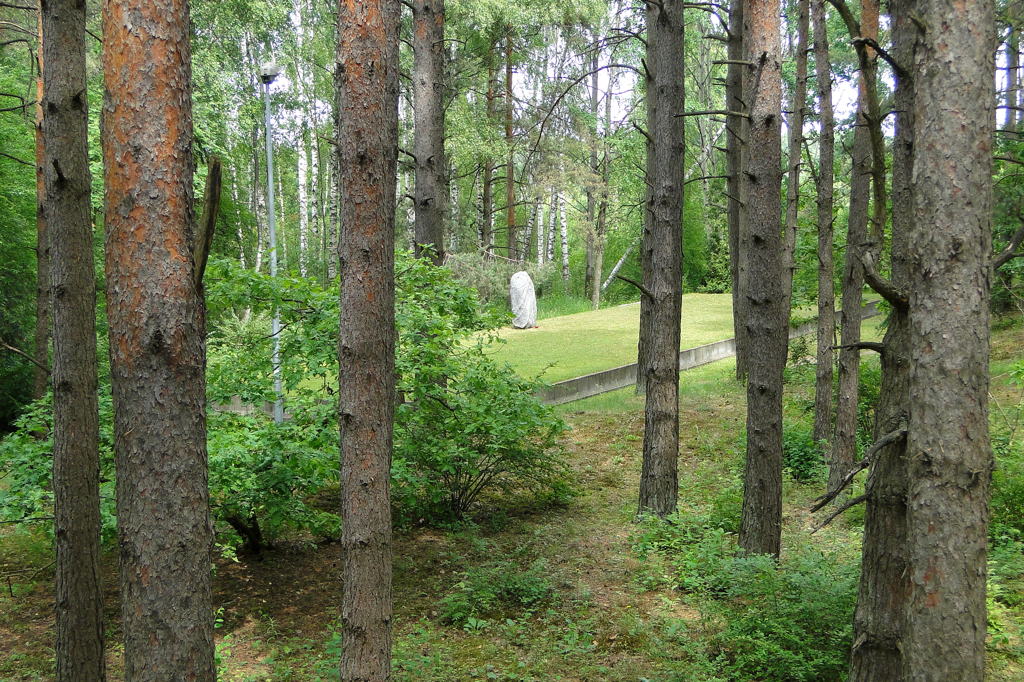 Stand of Trees with Mass Gravesite and Marker - Rumbula Forest Holocaust Site - Riga - Latvia